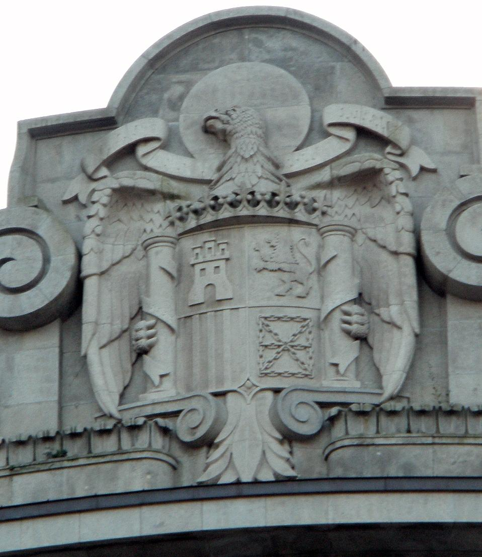 Águila franquista en el testero de la actual Agencia Estatal de Administración Tributaria de Bilbao (País Vasco, España)